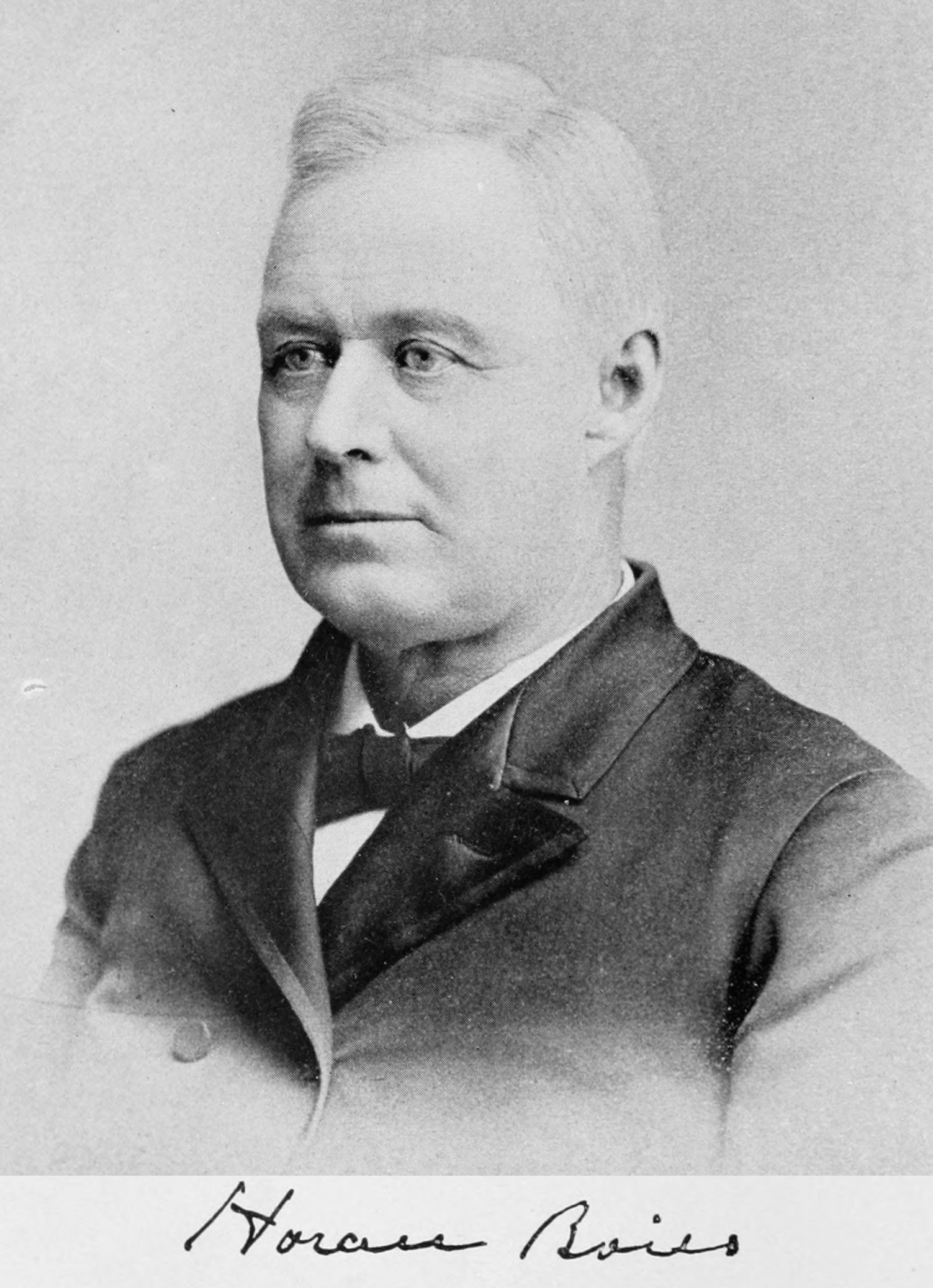 Former Iowa governor Horace Boies.